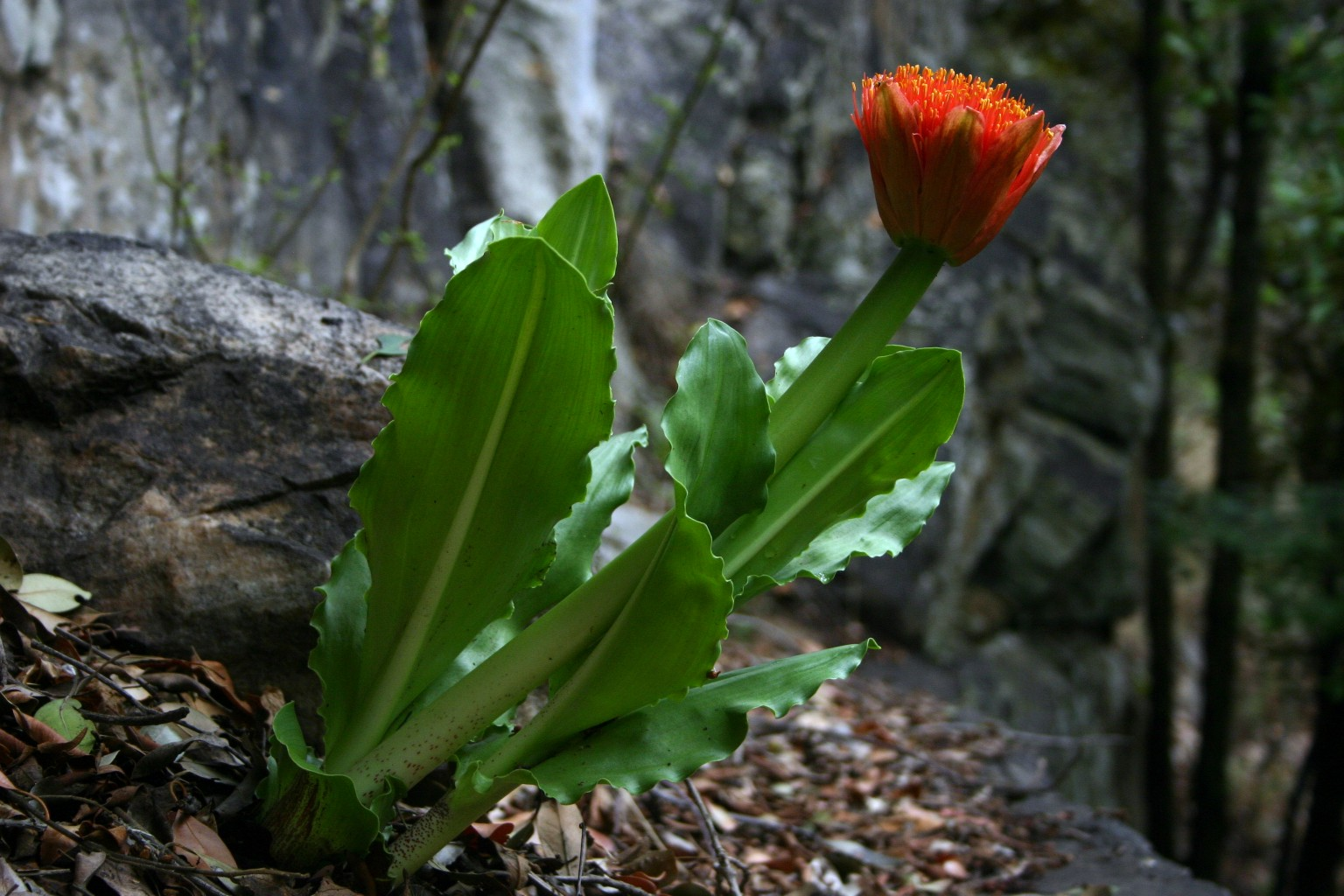 Scadoxus puniceus, Magaliesberg, Hamerkop Kloof